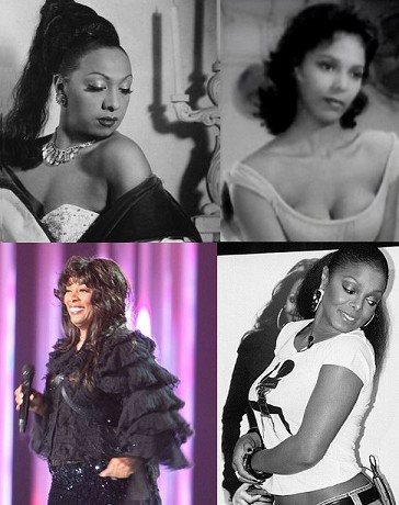 Photographs of women who influenced Keri Hilson's "Pretty Girl Rock" music video This file was derived from: Josephine Baker 1950.jpg Dorothy Dandridge in The Decks Ran Red trailer.jpg Nobel Peace Price Concert 2009 Donna Summer3.jpg Janet Jackson.jpg